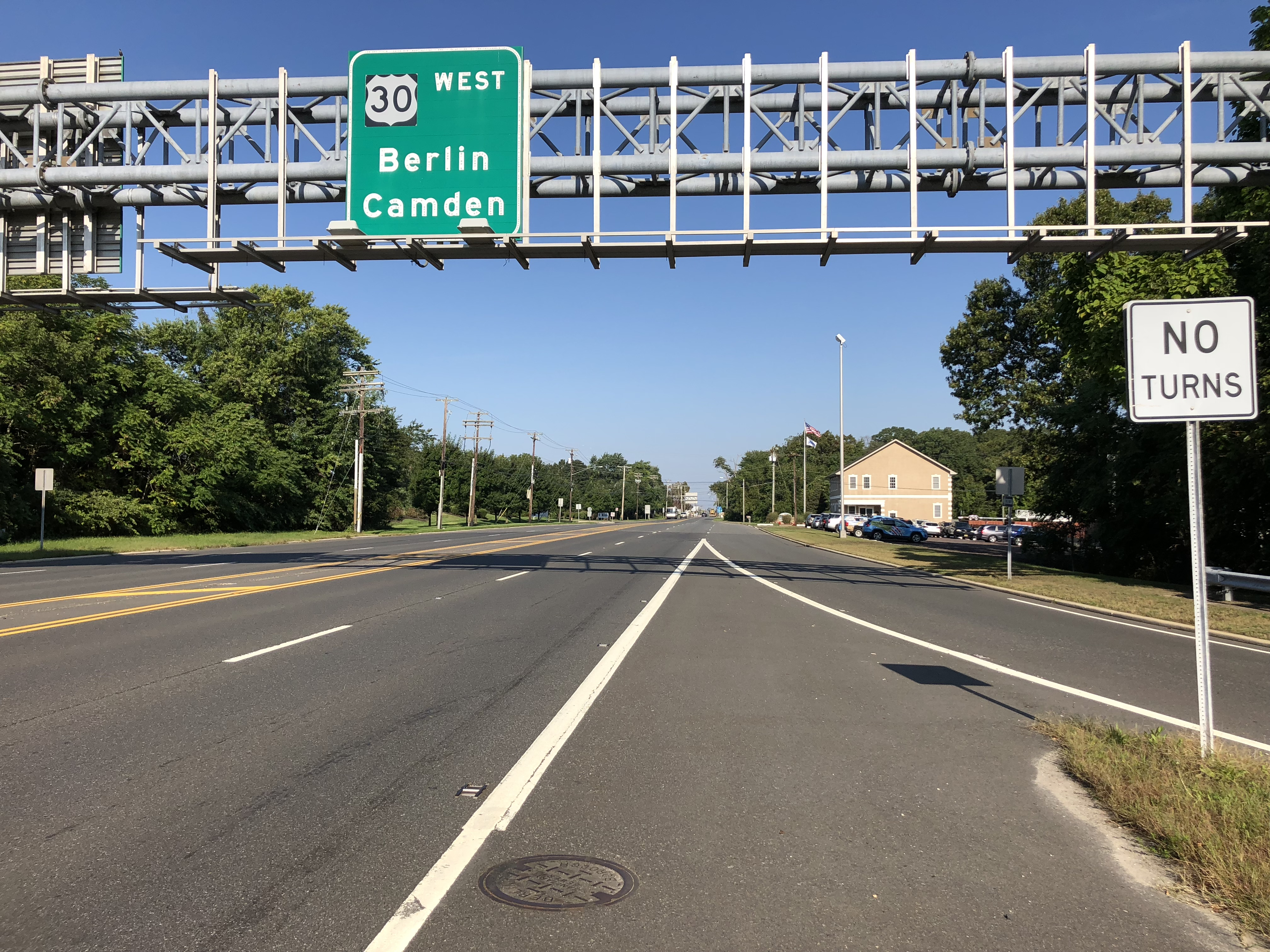 View west along U.S. Route 30 (White Horse Pike) just west of New Jersey State Route 73 in Berlin, Camden County, New Jersey